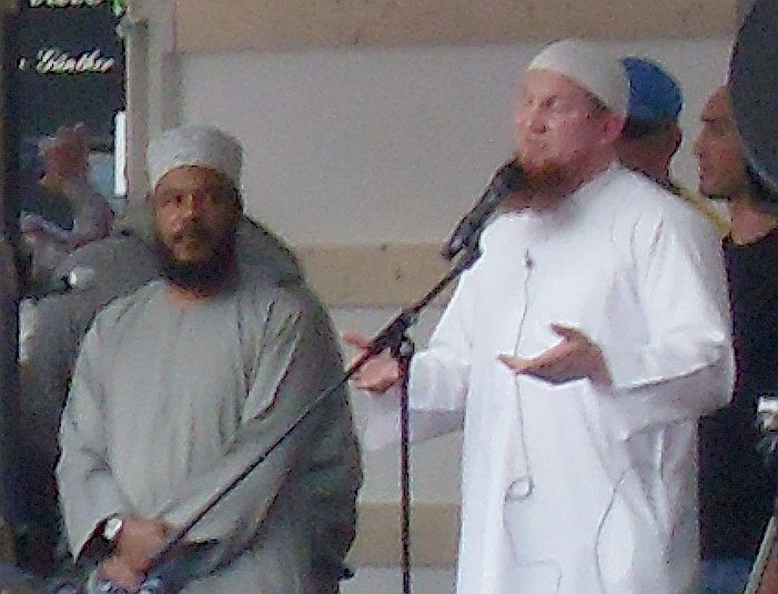 Bilal Philips (left, grey clothing) and Pierre Vogel (right, white clothing) speaking on a rally in Frankfurt/Main